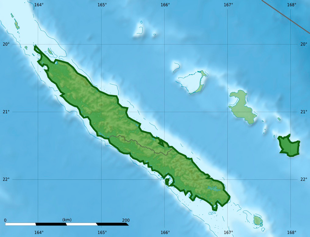 Distribution of the Caledonian Crow (Corvus moneduloides).